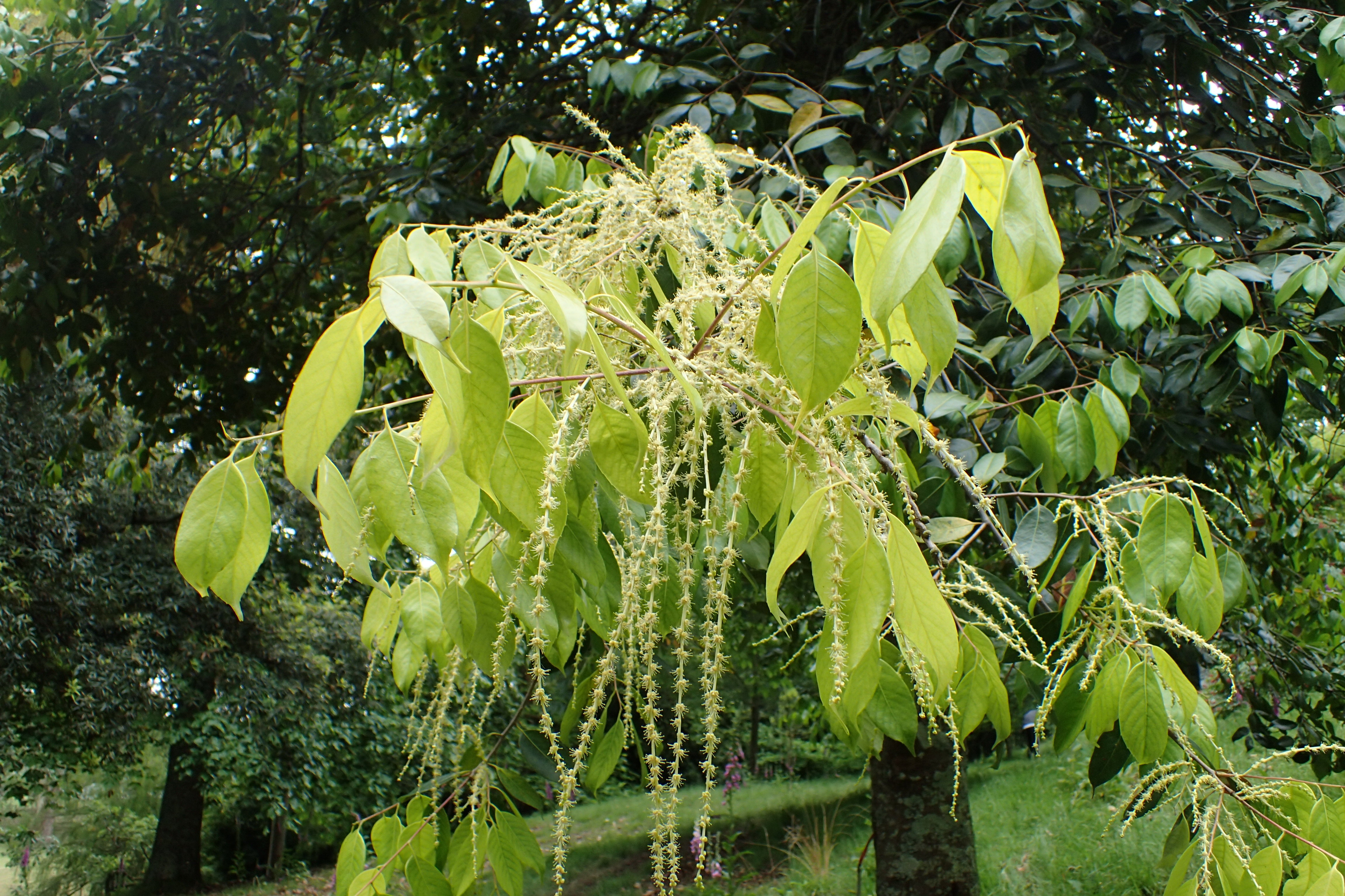 Castanopsis eyrei in Hackfalls Arboretum, Hawkes's Bay (NZ)